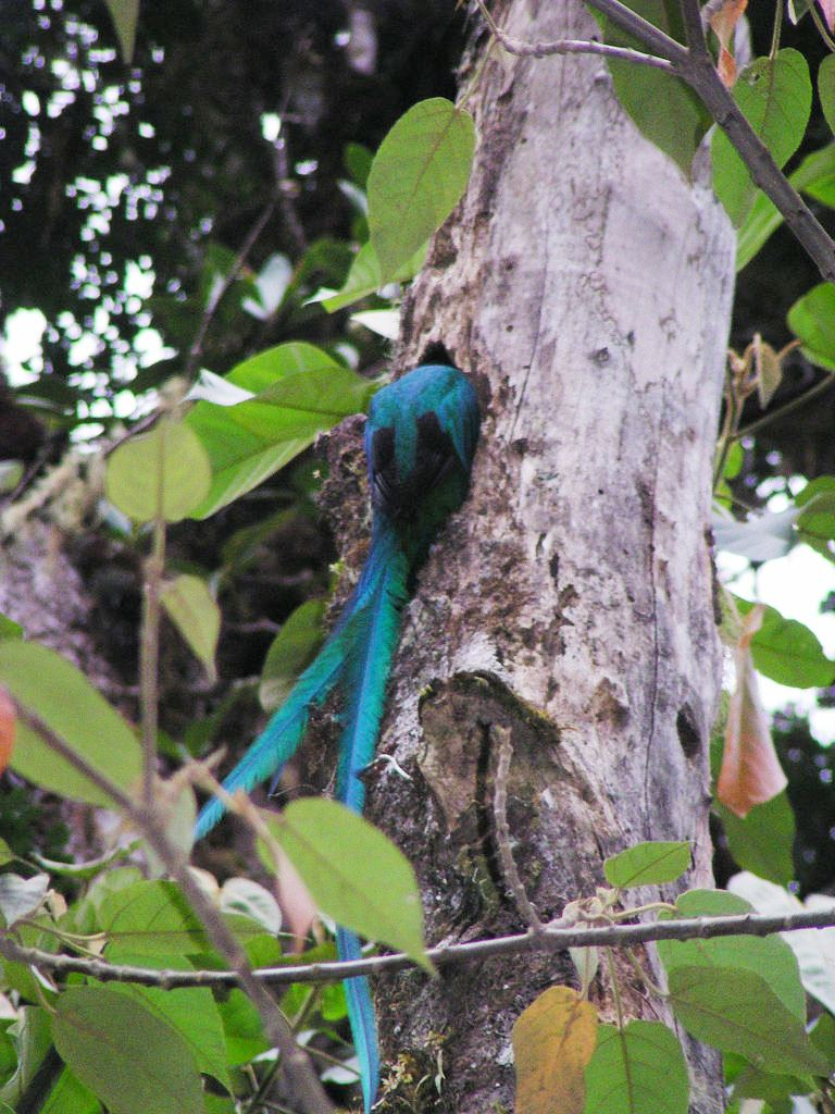 Resplendent Quetzal Pharomachrus mocinno entering nest, Costa Rica